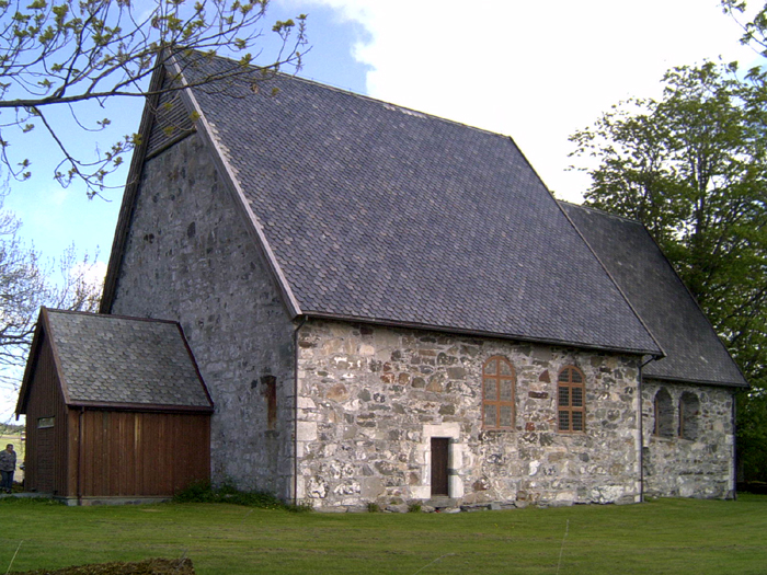 Logtun church, Frosta, Nord-Trøndelag, Norway.